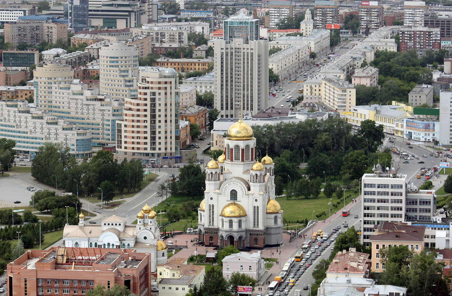 Ekaterinburg. Church on Blood